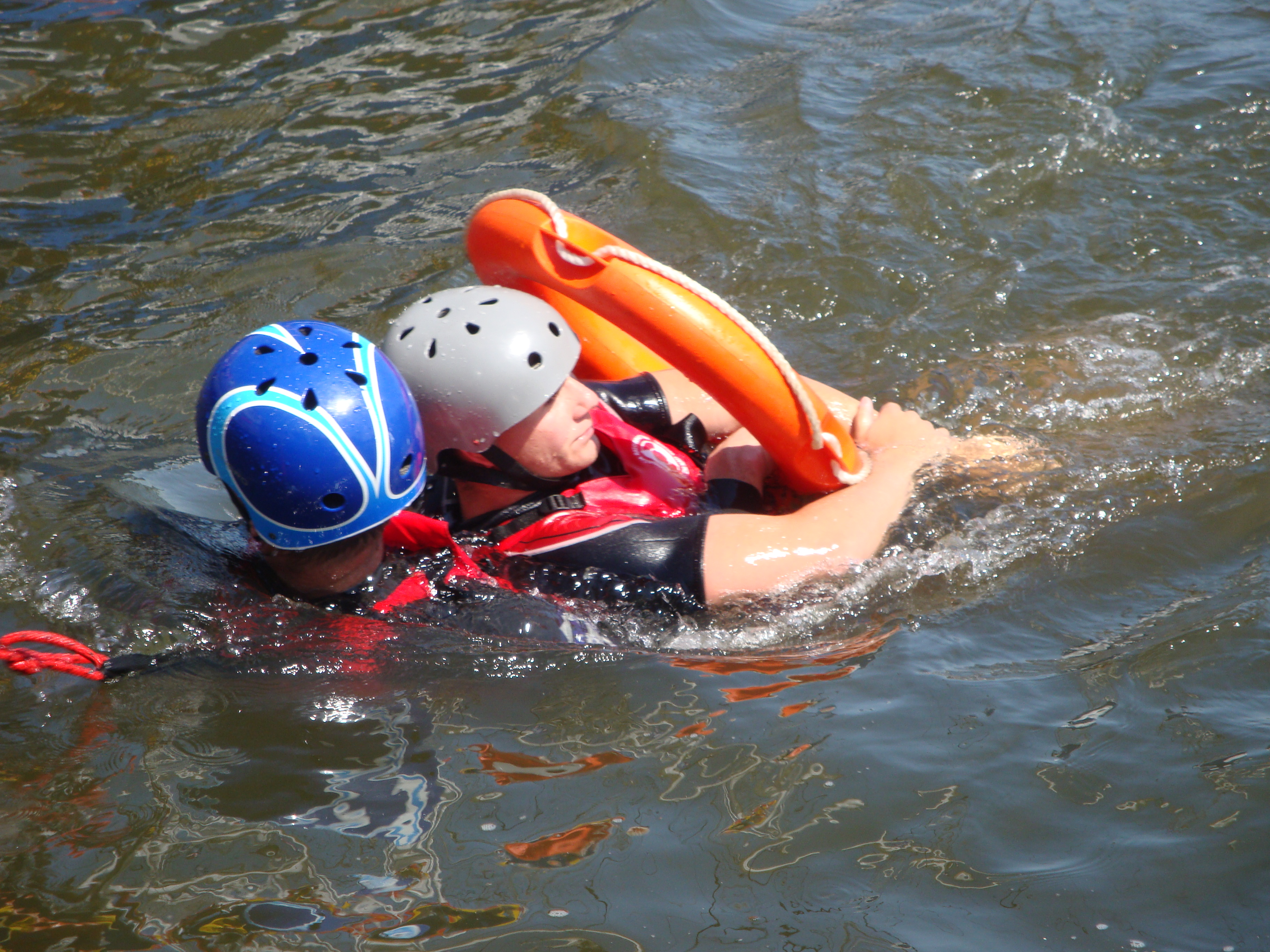 Towing of patient with use of rescue ring